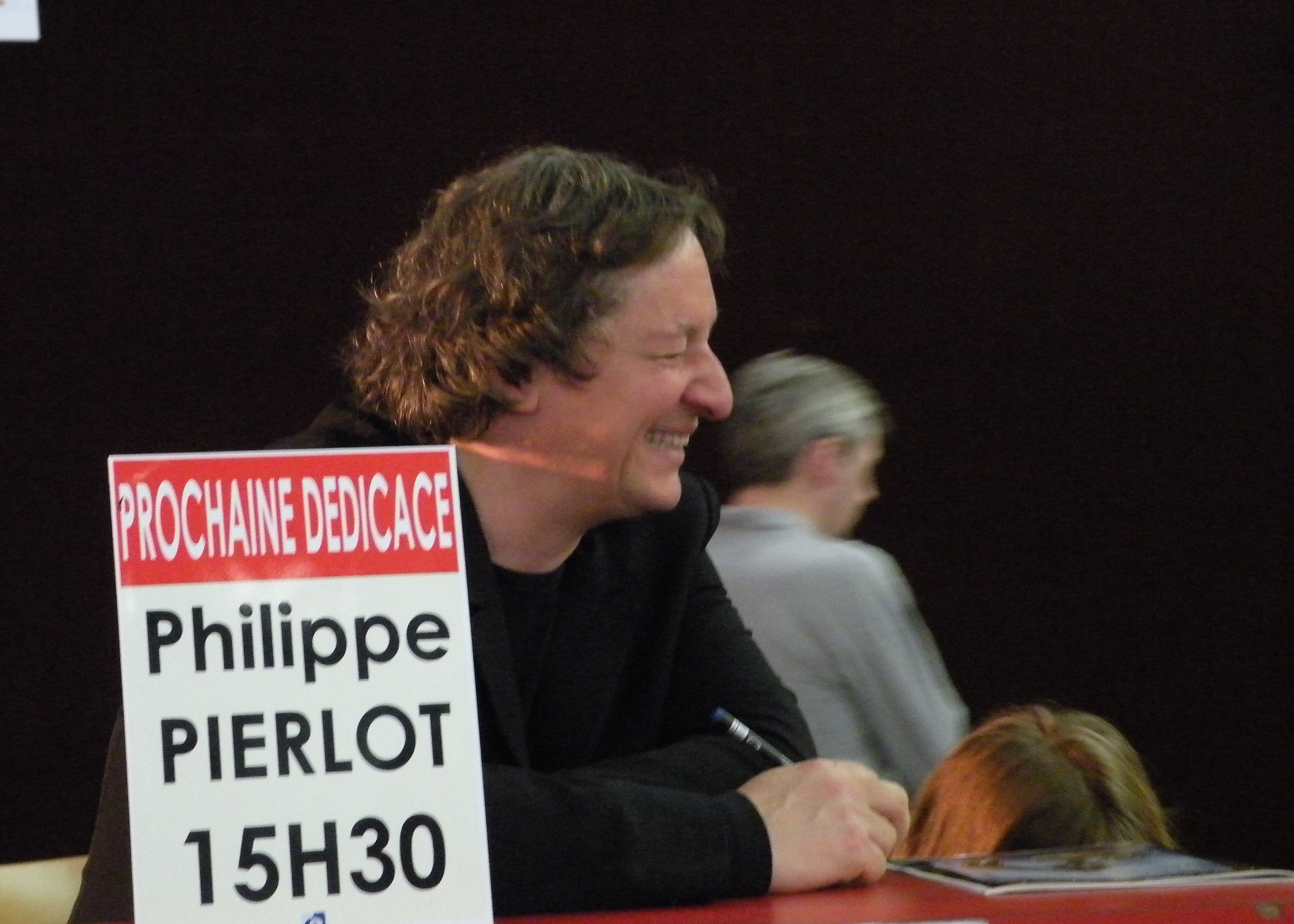 The belgian viol player and conductor Philippe Pierlot on 31 January 2009, during La Folle Journée in Nantes.